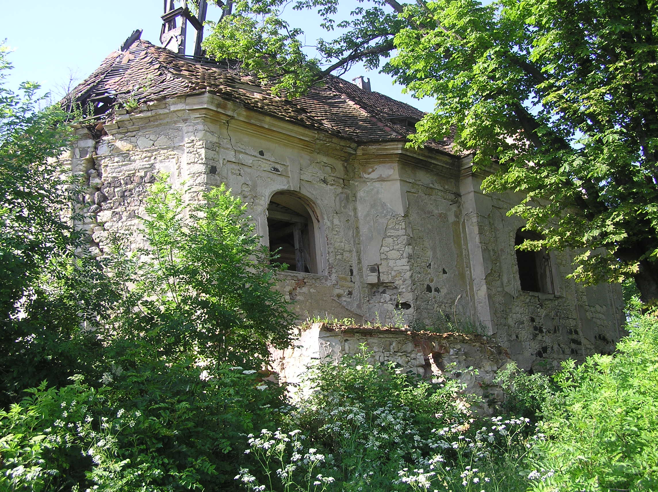 Rests of Church of St. James in Lahovice, Louny District